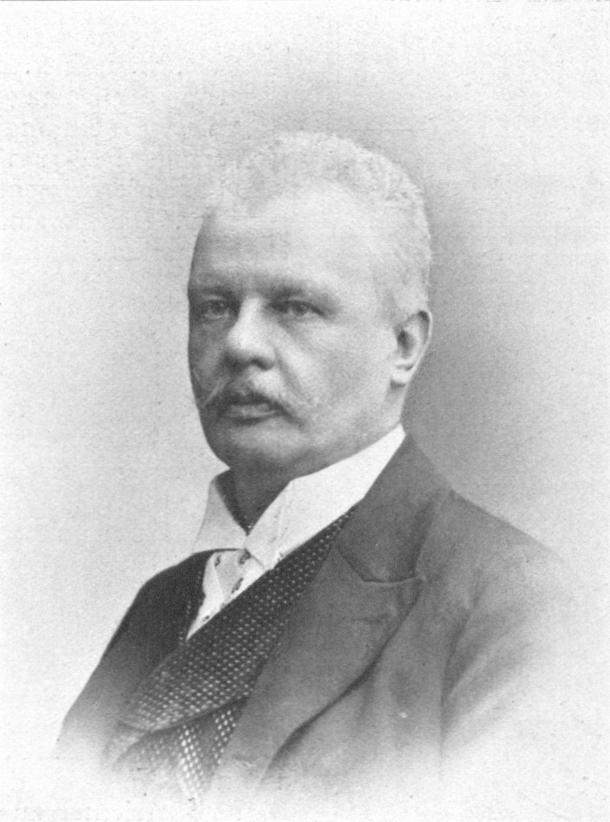 Robert Pattai (1846–1920), Austrian jurist and politician